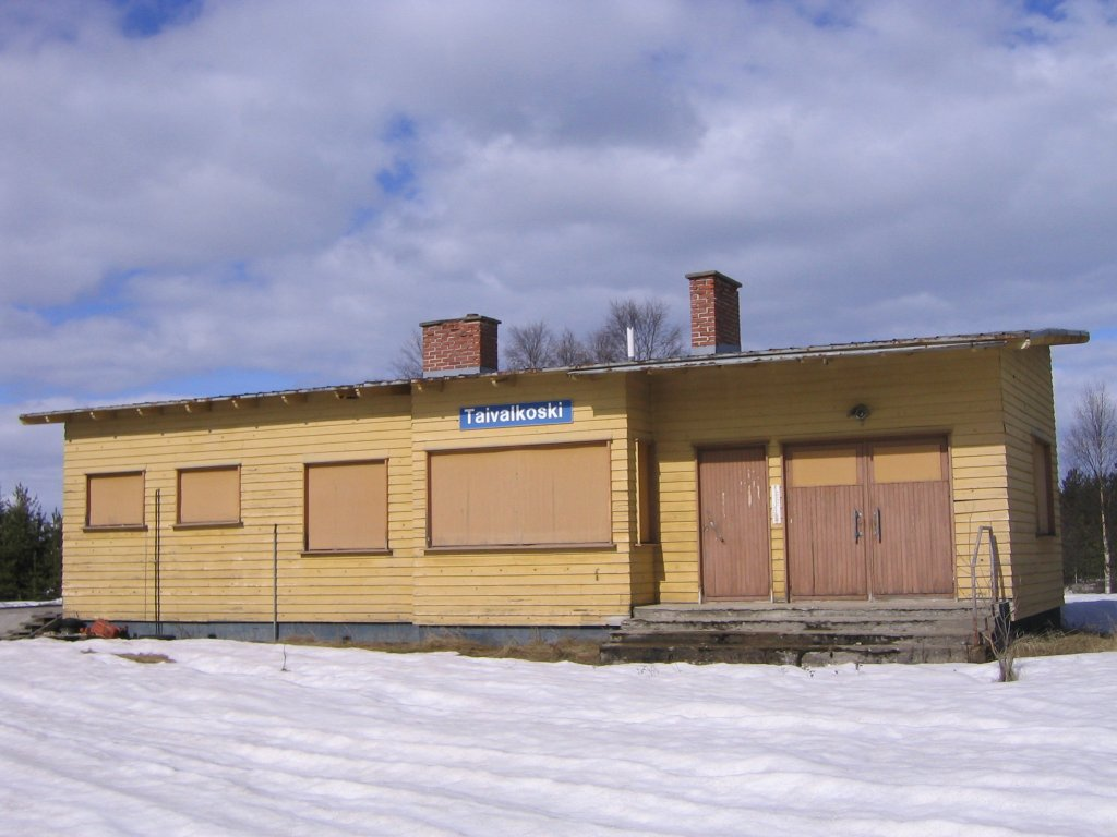 Taivalkoski defunct railway station in Finland